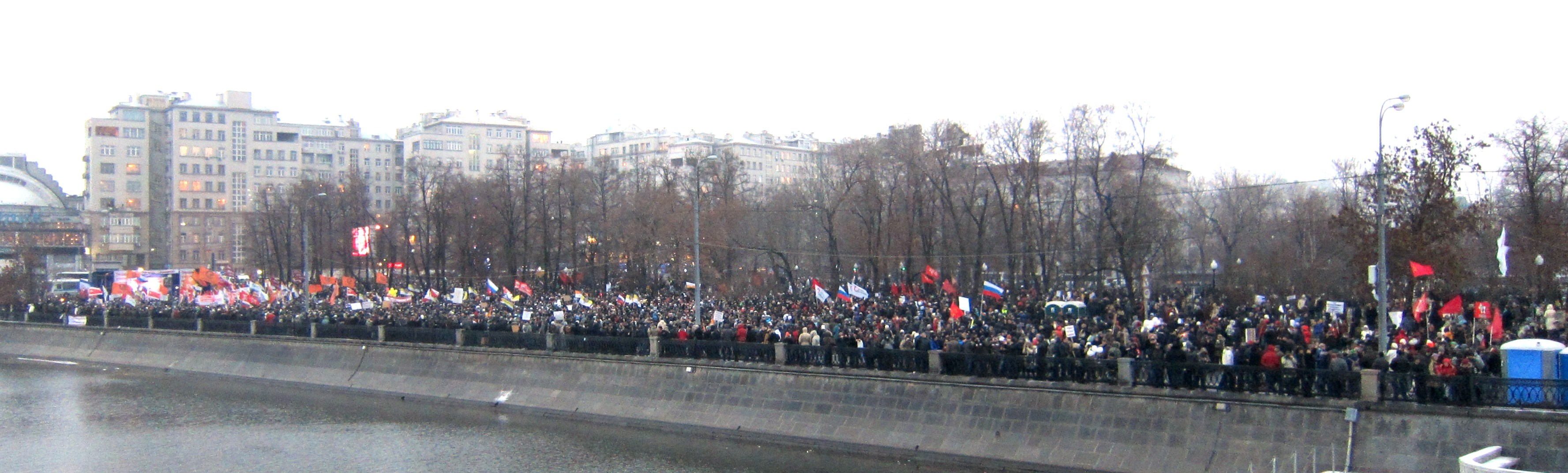 Moscow rally 10 December 2011, Bolotnaya Square, view from the Luzhkov Bridge